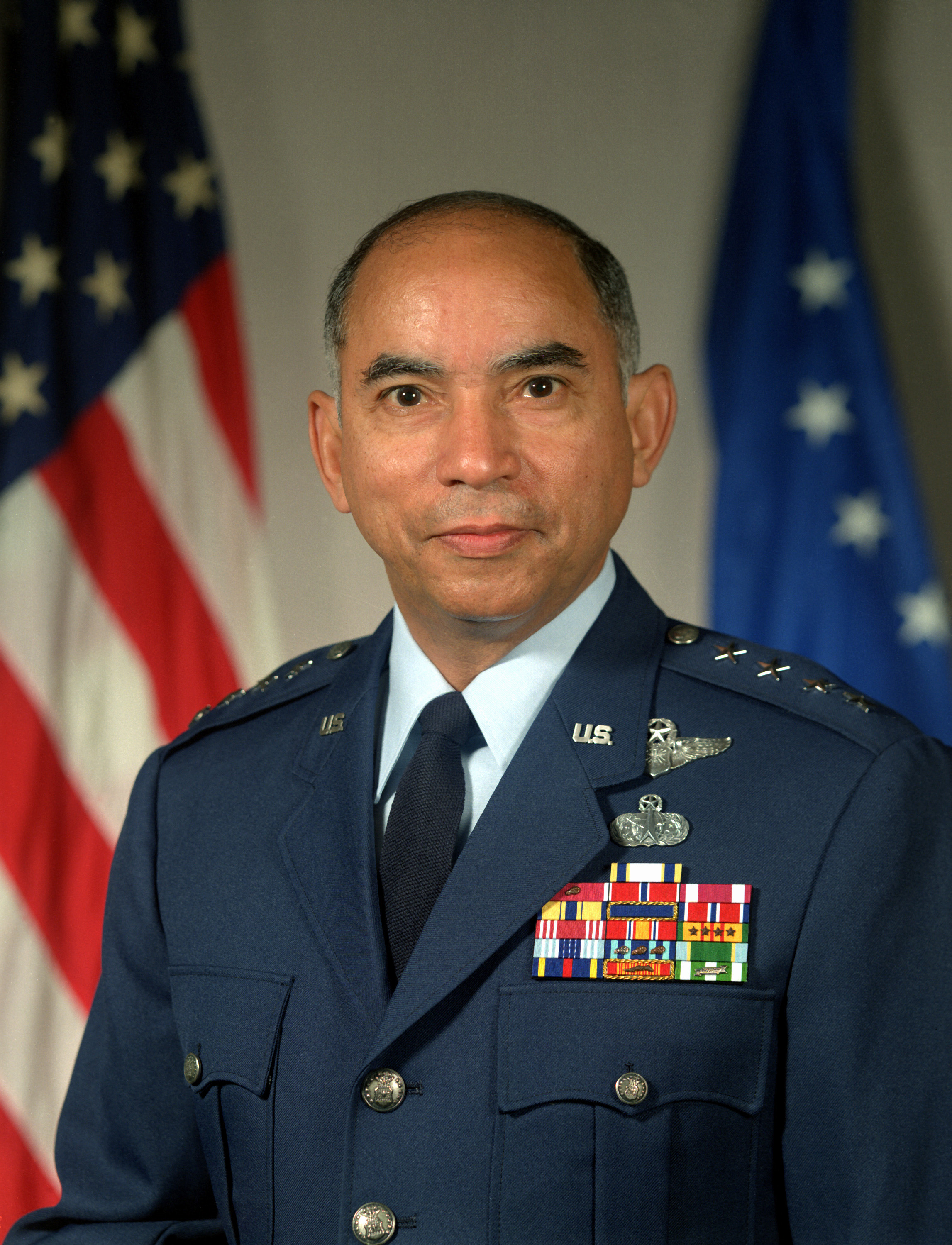 General Bernard P. Randolph